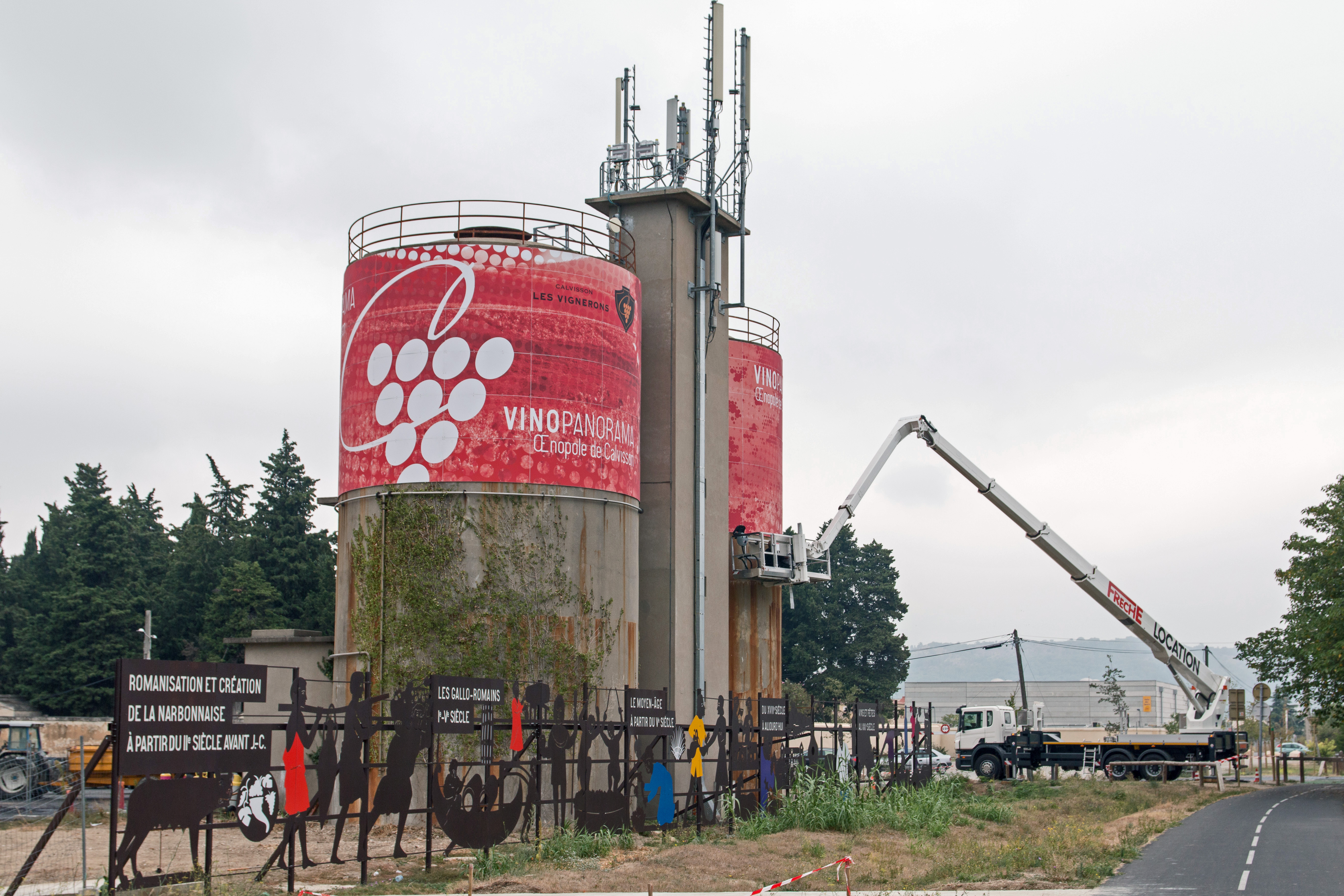 That's it! Today we asked the second Under the rug! As against the bacchanal has disappeared ...